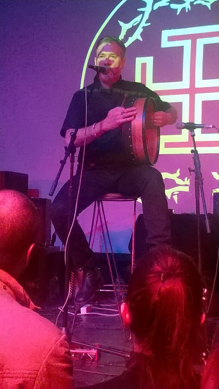 Michael Moynihan from neofolk band Blood Axis live in Moscow, 2016.